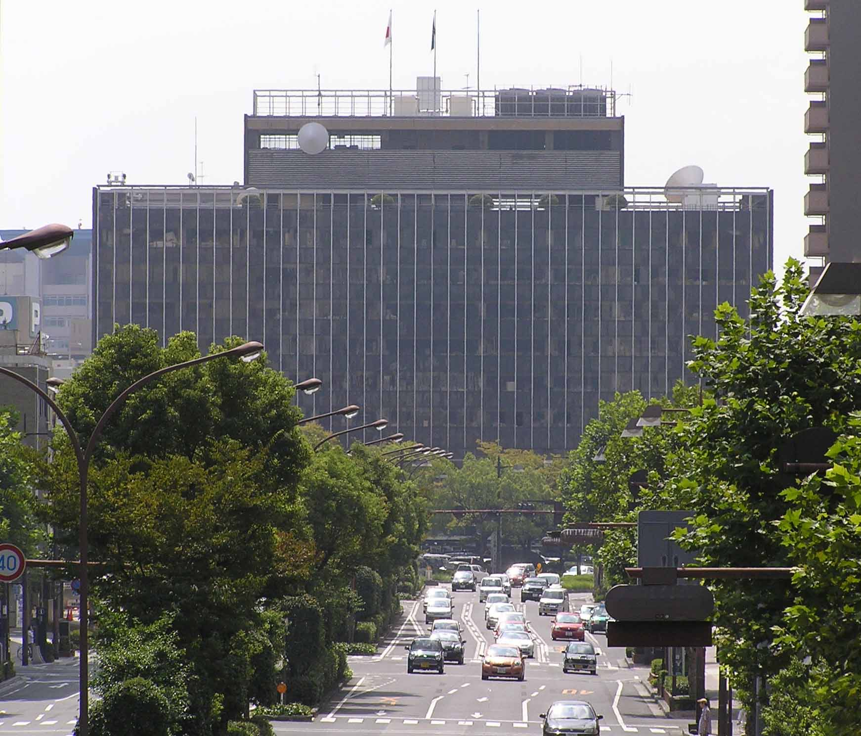 The Okayama city and Kita ward office is faced from the north.